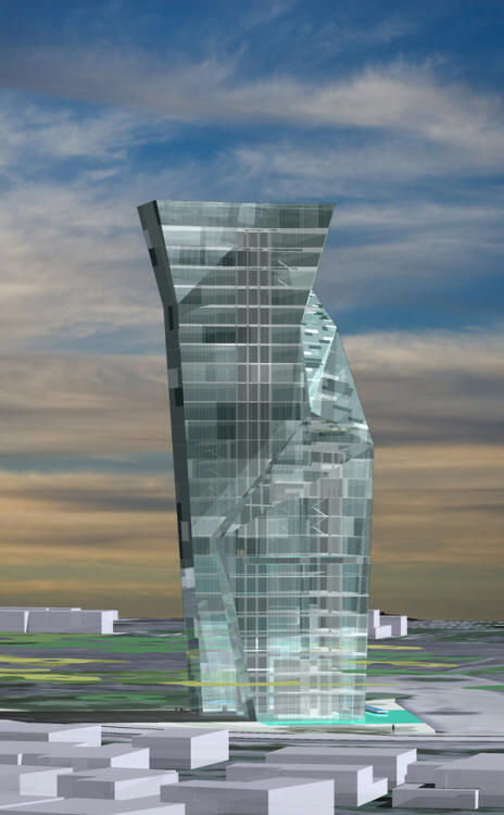 HelixTower, Guadalajara, MX, luisvicenteflores, 2008